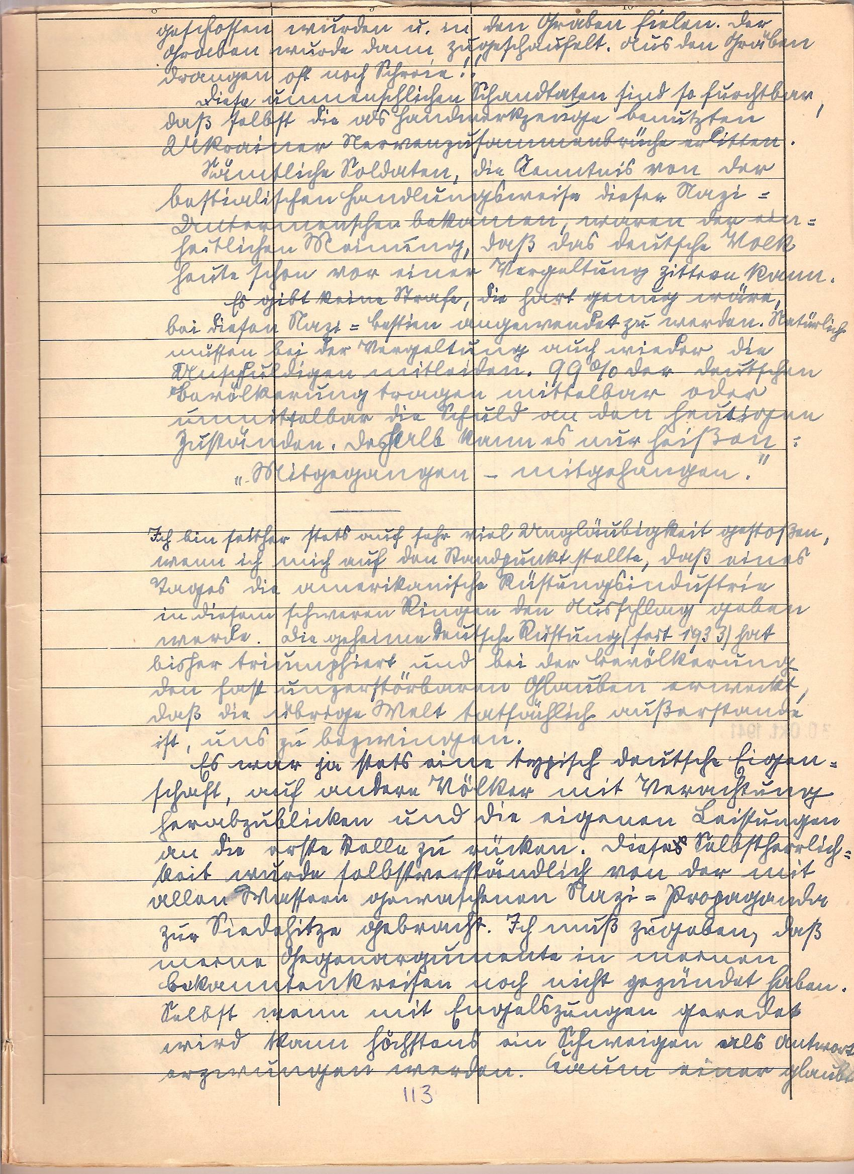 Entry in the Friedrich Kellner diary that reports on the mass murders of the Jews. This is the second page of the entry. Also available on Commons is the beginning of the entry, listed as: Kellner diary Oct 28 1941 murders - page 1. Author: Robert Scott Kellner Source: scan of the diary page.